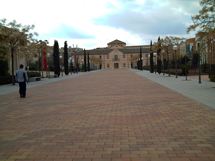 A own work release by Javier martin gathered Ciudad Real up, 20 march 2006, donated to Wikipedia fundation. Rectorado de la Universidad de Ciudad Real